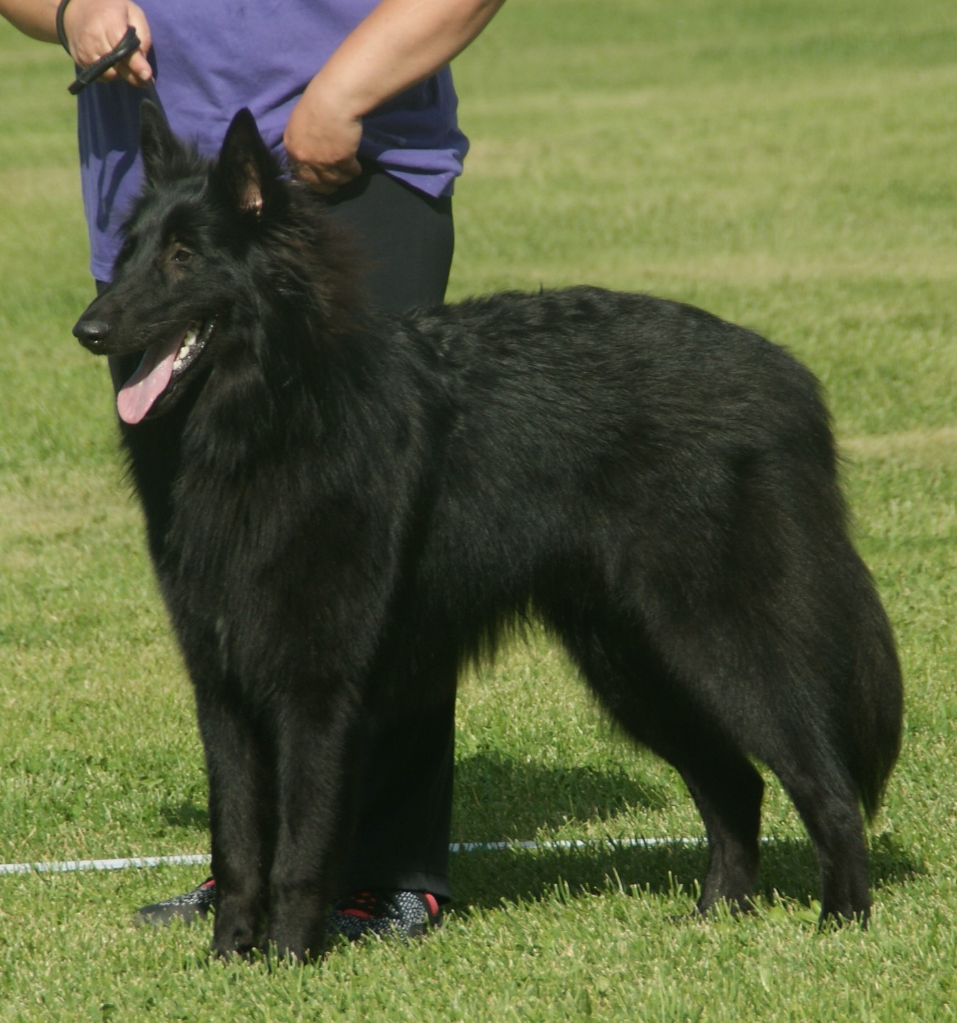 Belgian Sheepdog Groenendael, male.